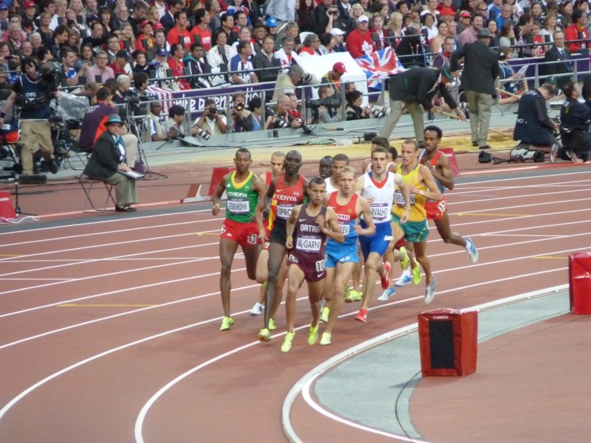 Olympic Stadium, Friday 3 August, London Olympic Games, Men's 1,500 metres heat, Mekonnen Gebremedhin, Asbel Kiprop, Mohamad Al-Garni, Egor Nikolaev, Florian Carvalho, Ryan Gregson